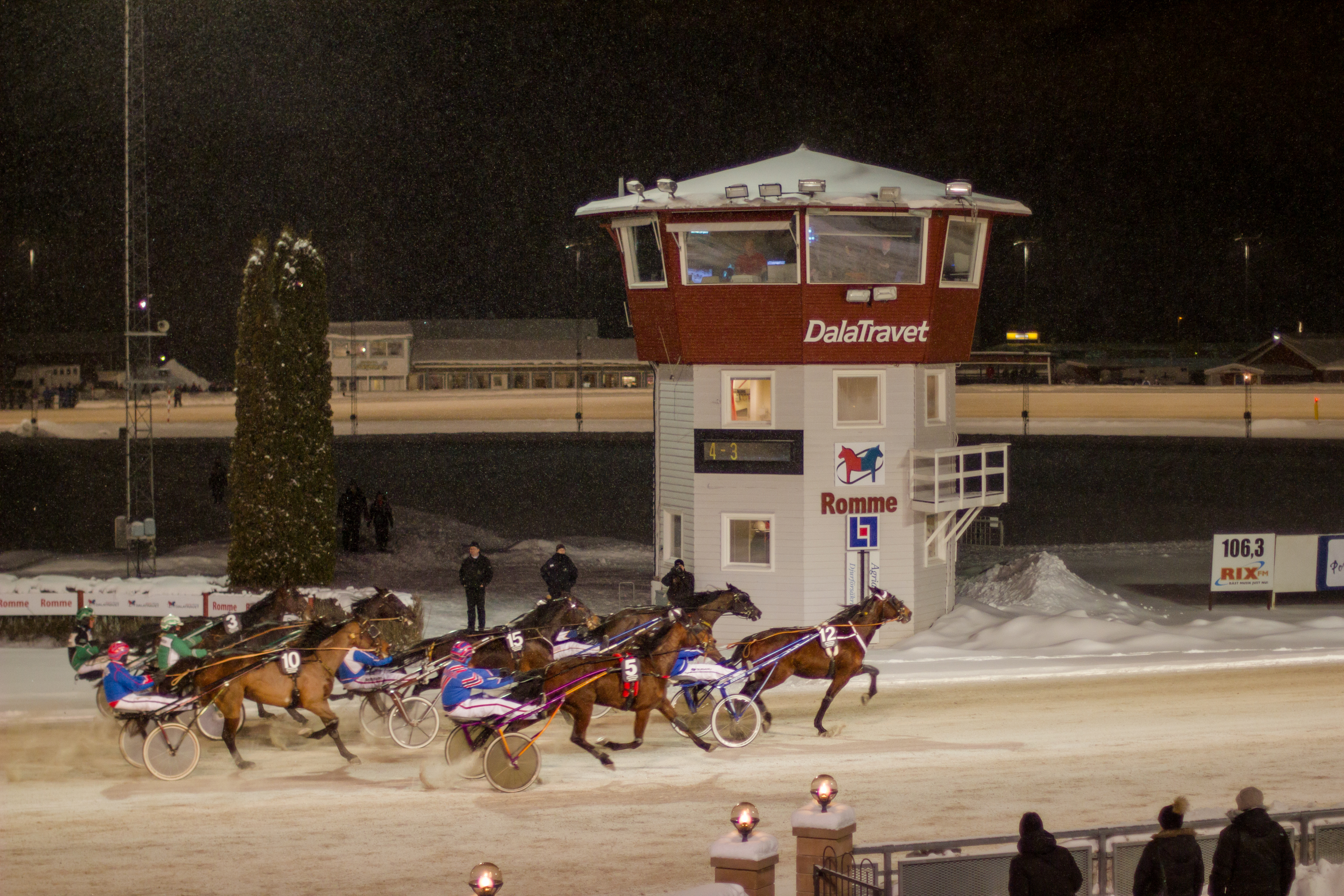 Finish at heat six at Romme Harness Racing 2013-02-11, Borlänge, Sweden, in heavy snowfall. Kajsa Frick with the horse Ross Laday (#12) won.